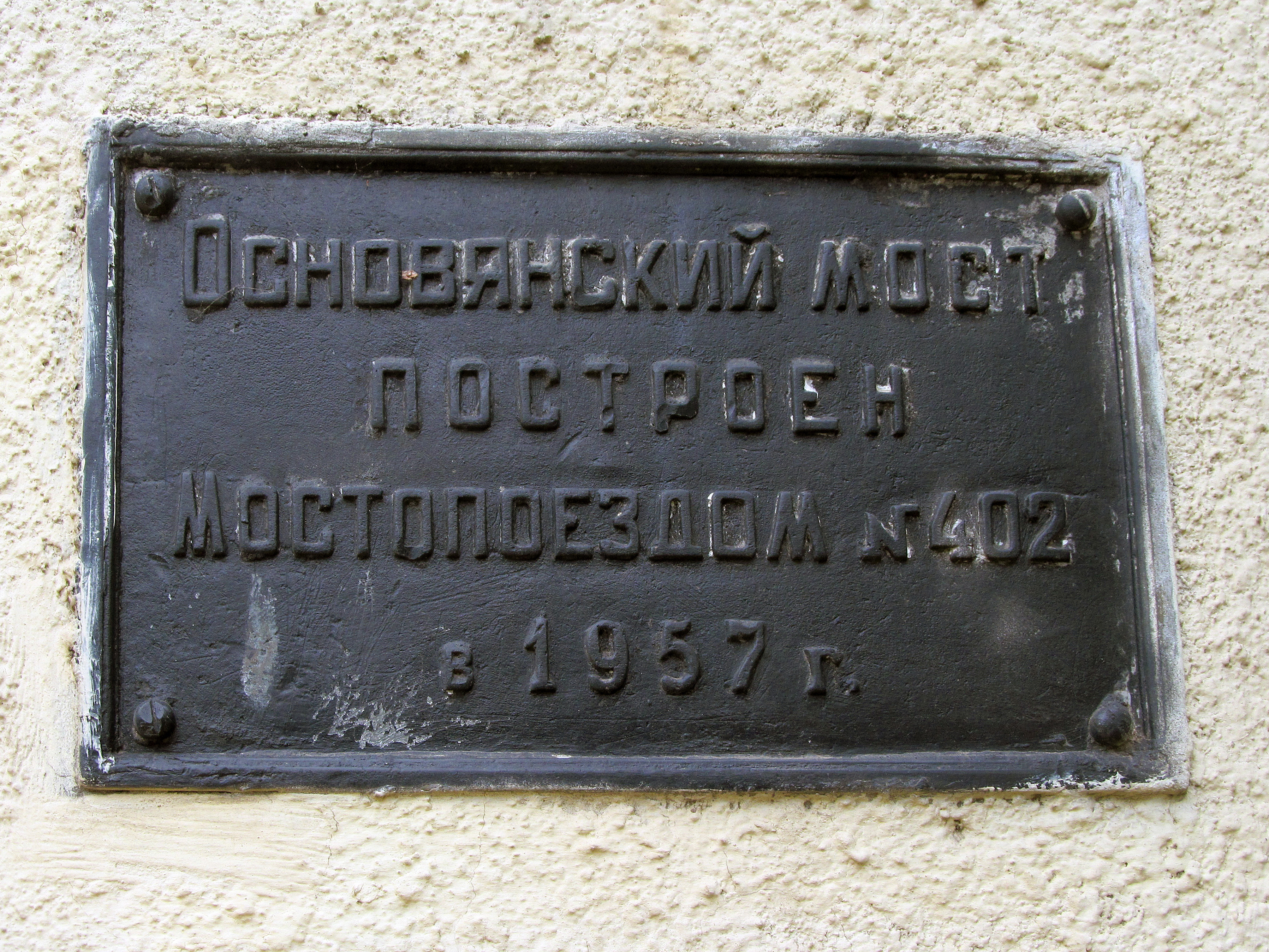 Osnovyansky Bridge, Kharkiv. Annotative Plaque.